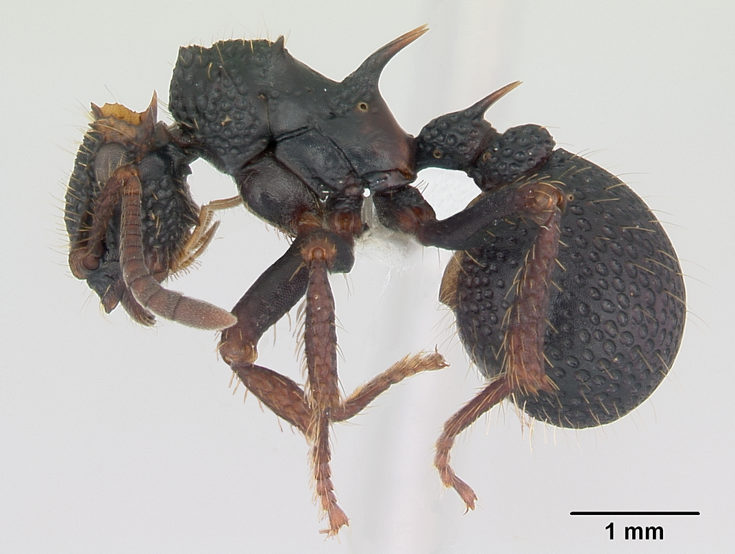 Profile view of ant Ankylomyrma coronacantha specimen casent0005904.